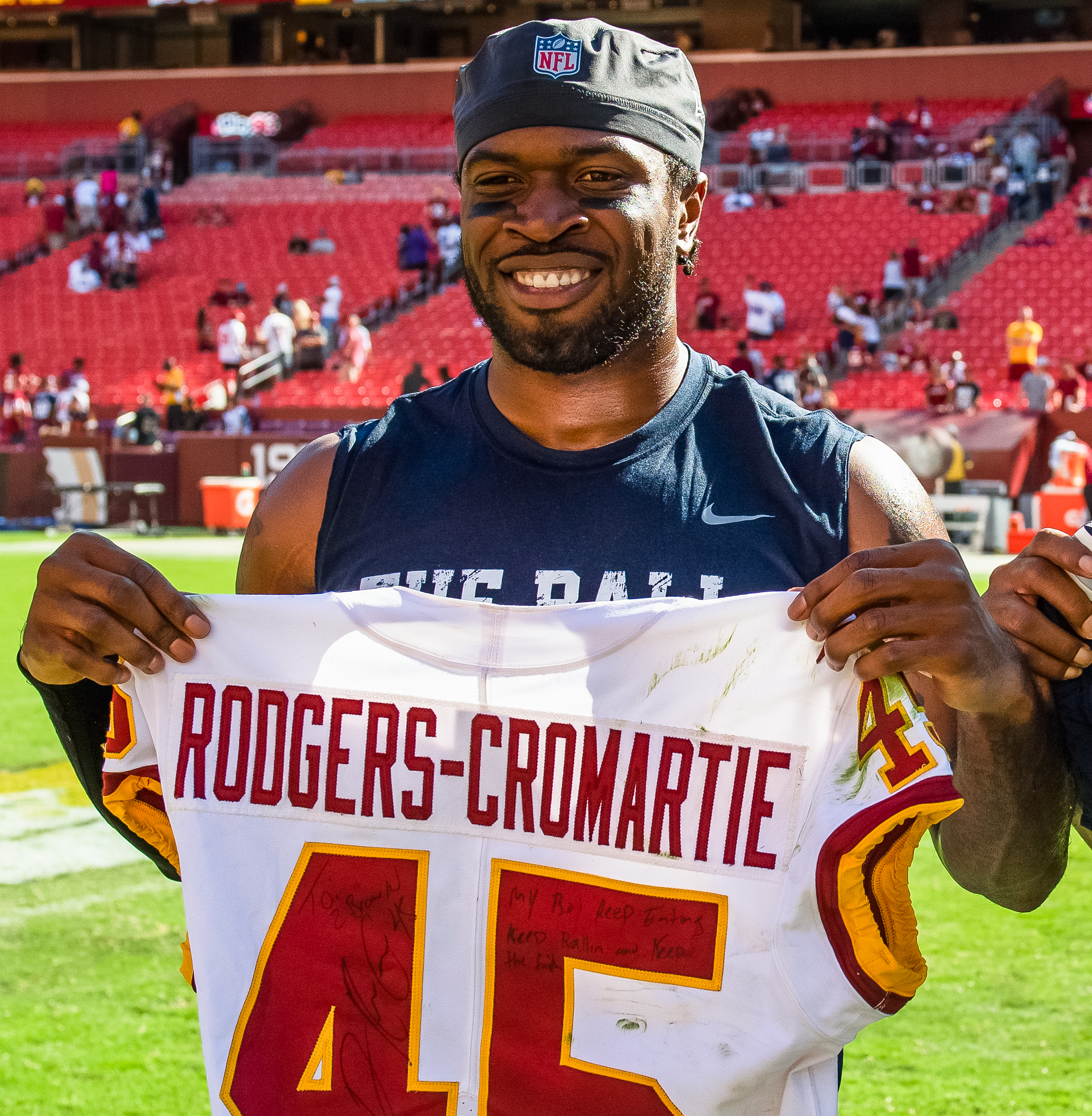 Anthony Brown and Dominique Rodgers Cromartie in 2019